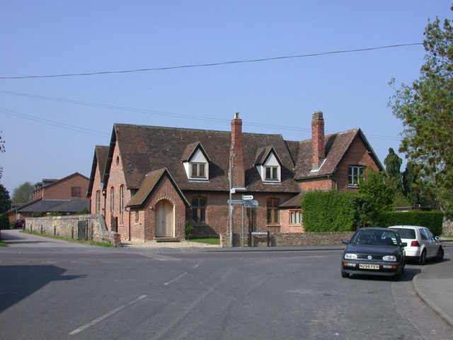 Ickleton, Cambridgeshire: former parish school, now the village hall